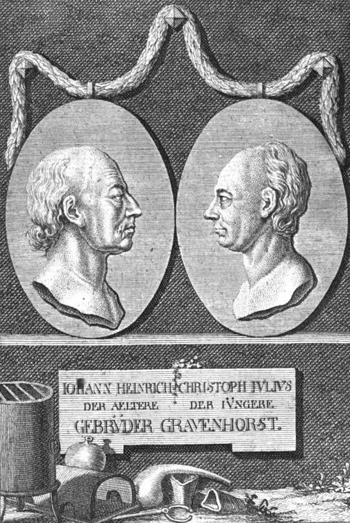 Johann Heinrich Gravenhorst (1719−1781) and Christoph Julius Gravenhorst (1731−1794), chemists and entrepreneurs, Brunswick, Germany.